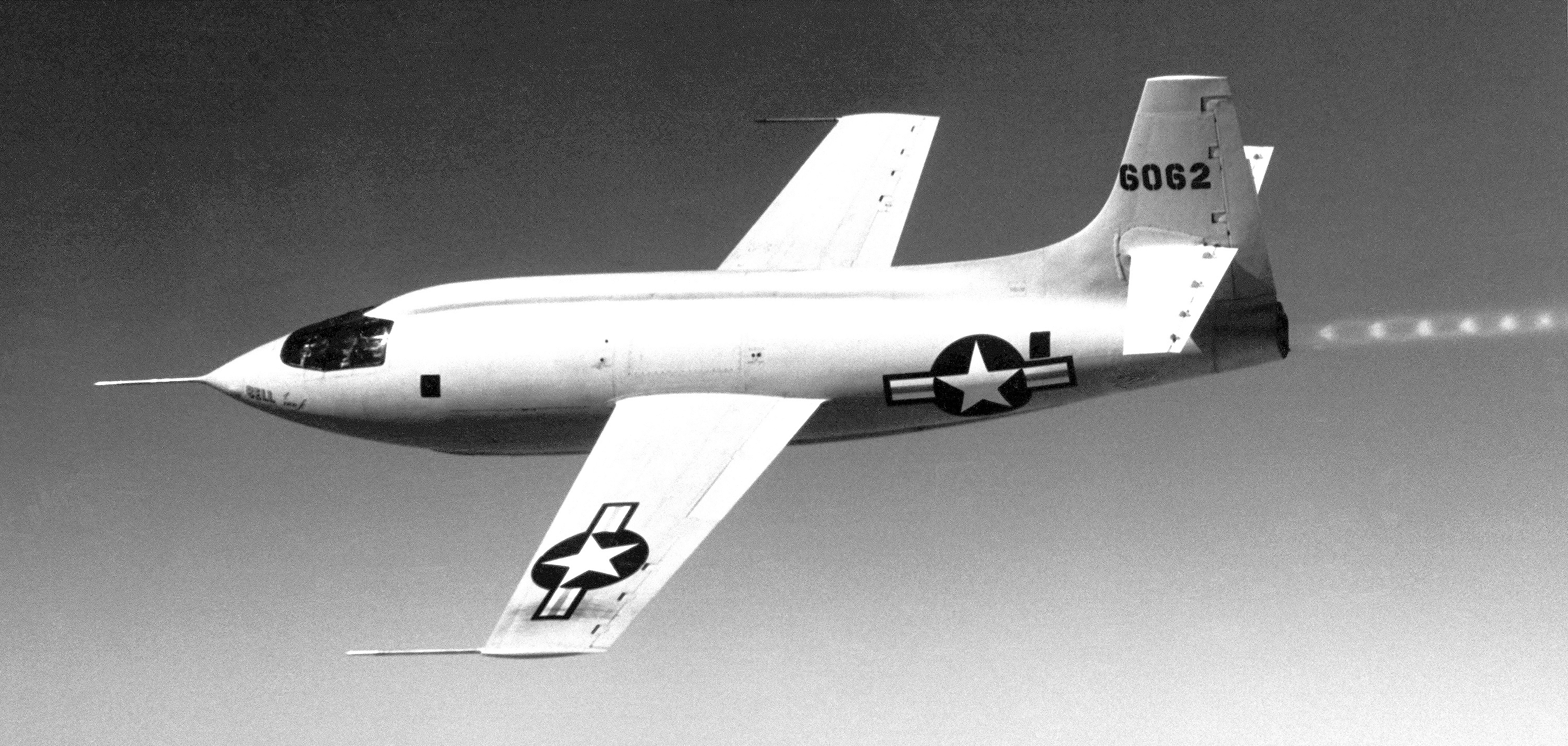 The Bell Aircraft Corporation X-1-1 (#46-062) in flight. The shock wave pattern in the exhaust plume is visible. The X-1 series aircraft were air-launched from a modified Boeing B-29 or B-50 Superfortress bombers.